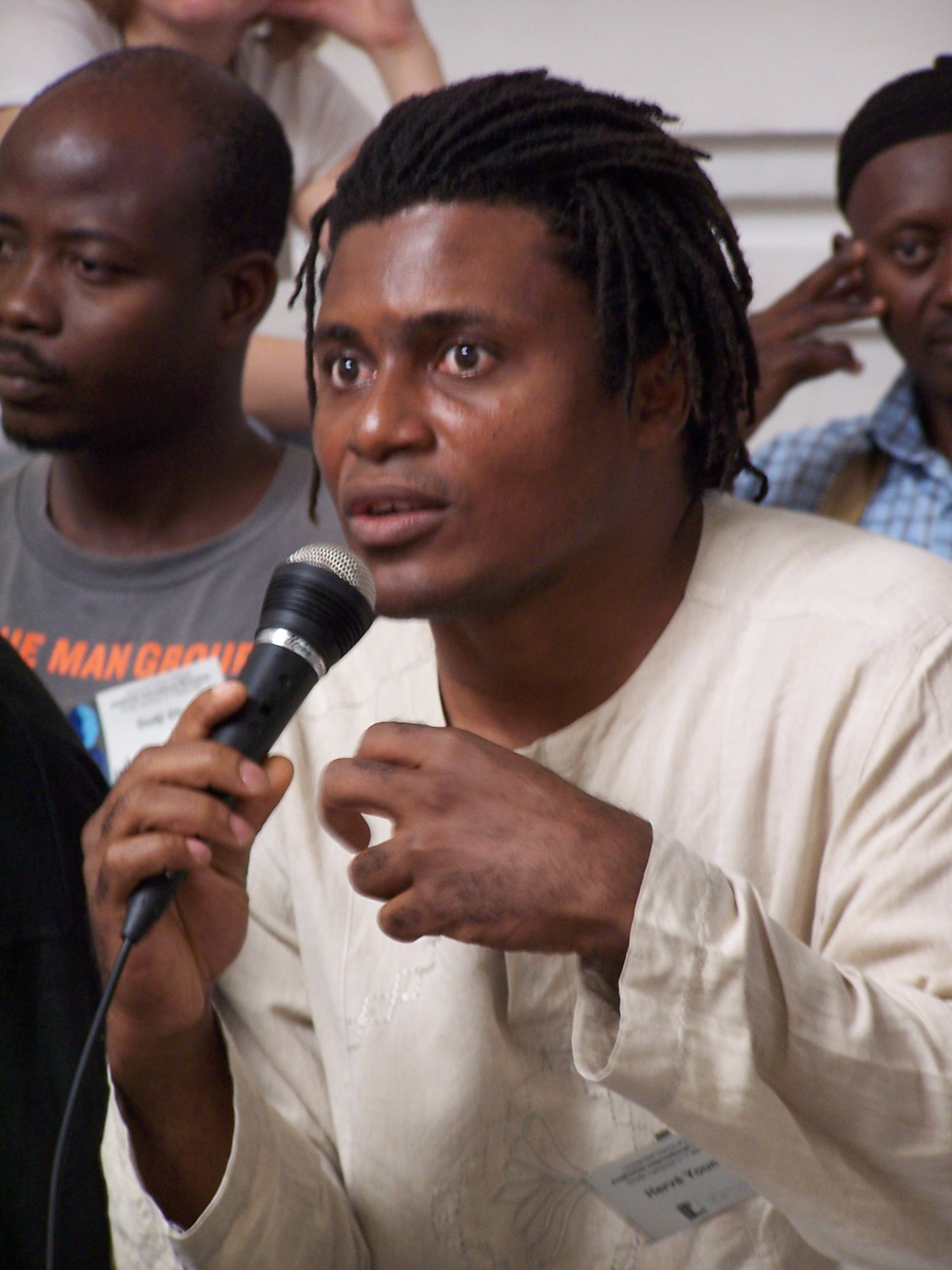 Ars&Urbis International Workshop 2007, Douala, March 2007. Photo by Paulin Tchuenbou for doual'art.